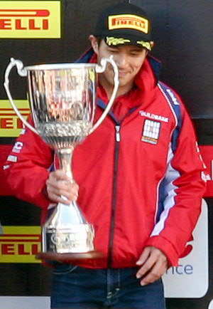 Japanese road-race rider Ryuichi Kiyonari in Buildbase BMW colours with trophy acknowledging the spectators' plaudits at Brands Hatch Showdown podium, end of BSB season 2014